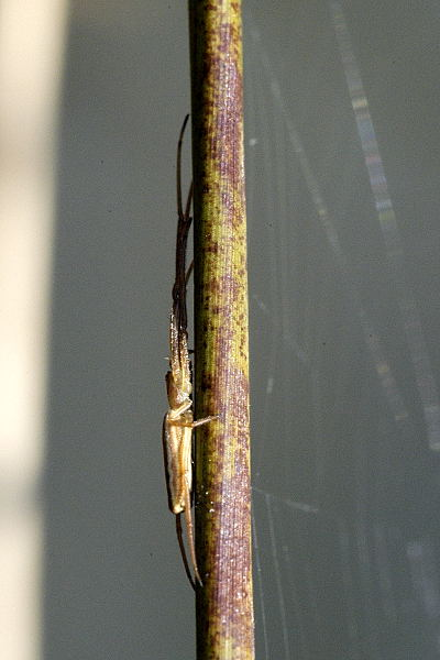 Tetragnatha striata from Commanster, Belgian High Ardennes .